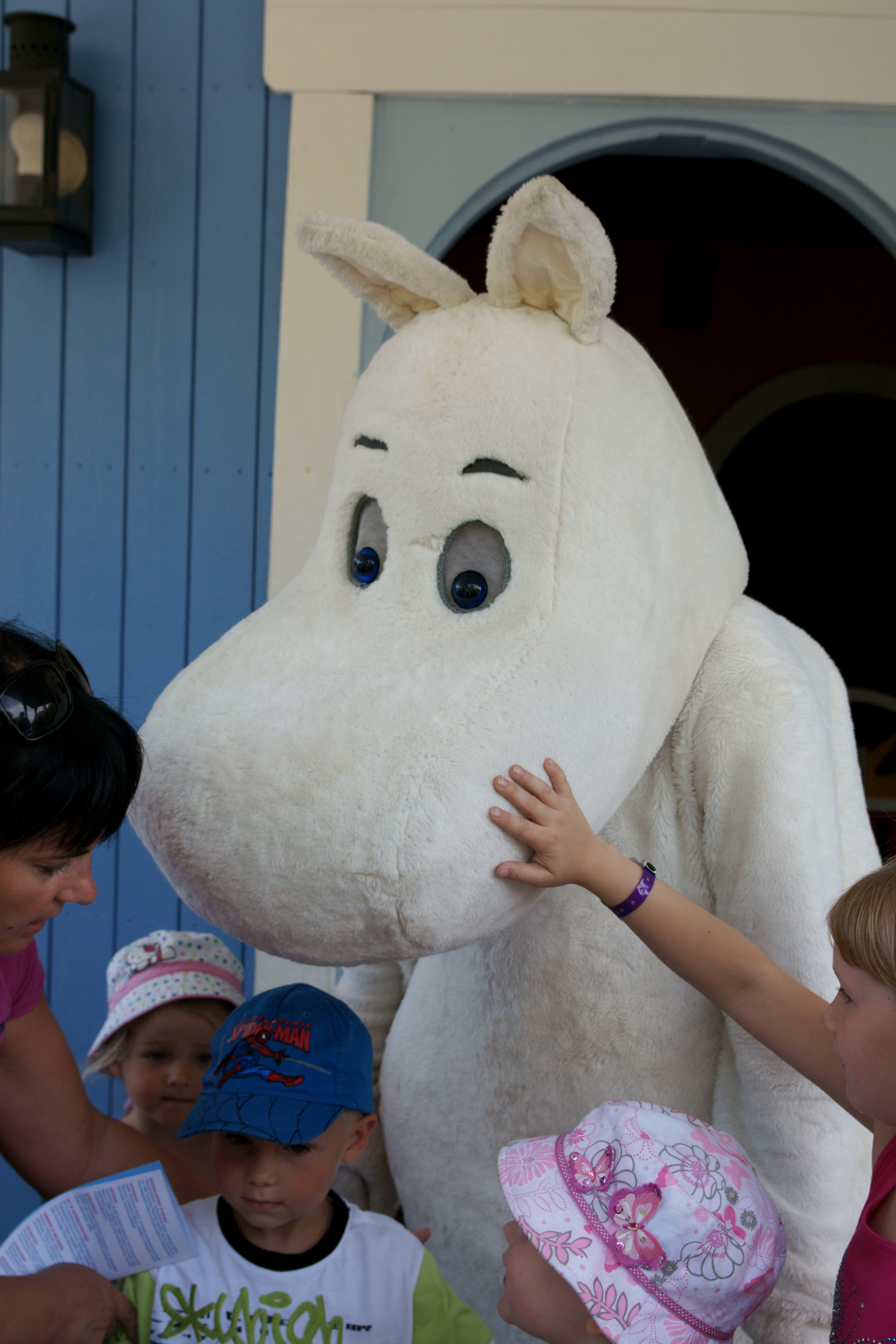 Moomintroll in Muumimaailma, Naantali.